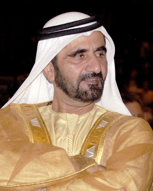 Sheikh Mohammed bin Rashid Al Maktoum, Prime Minister and Vice President of UAE